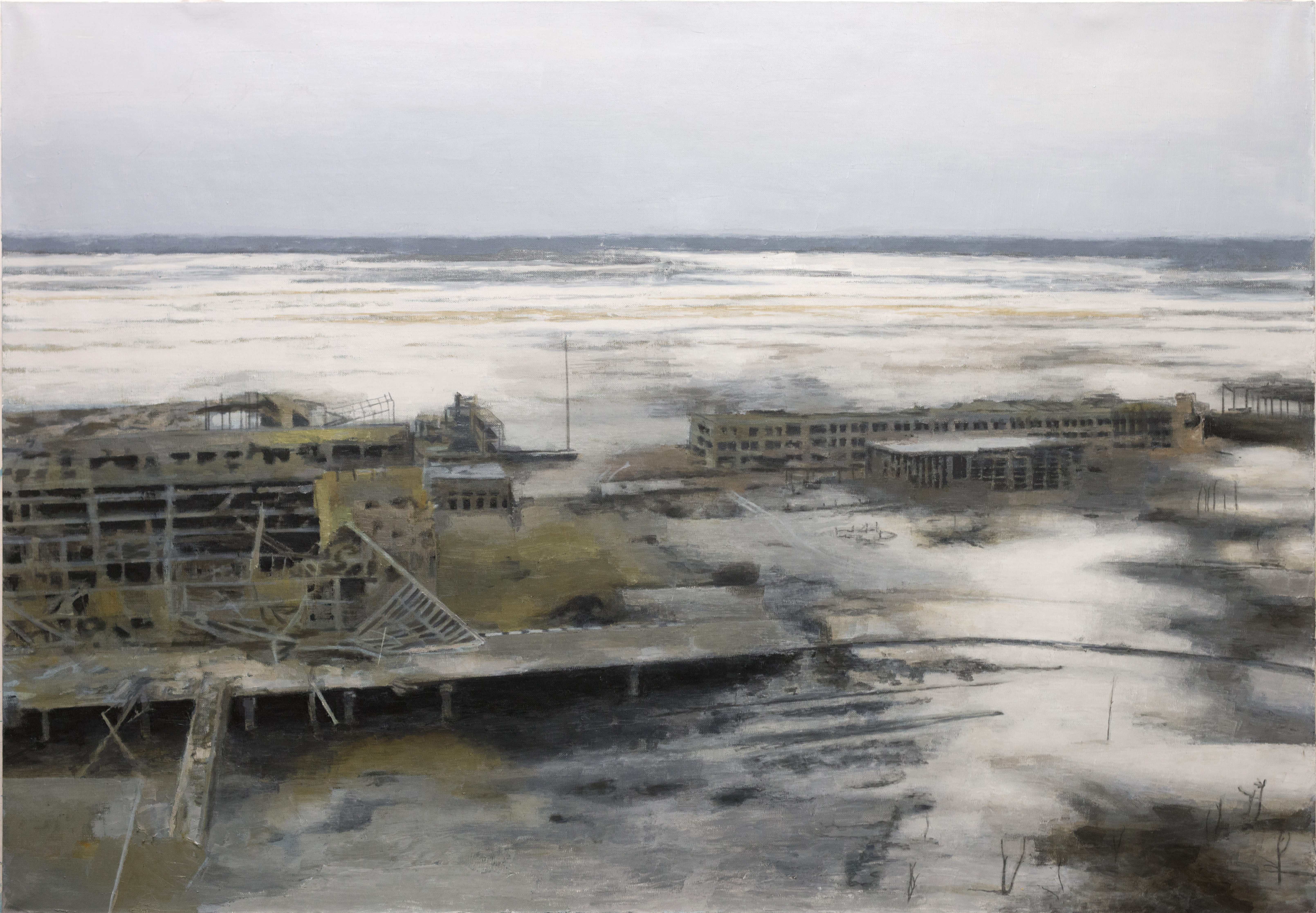 oil on canvas, 160x230